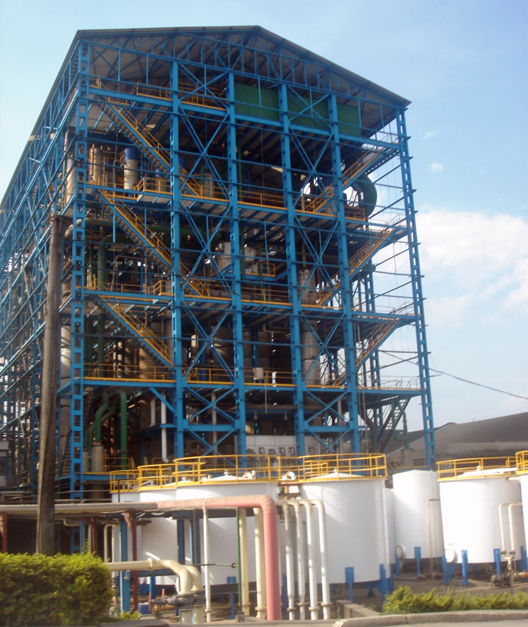 Ethanol distillery facility at the Costa Pinto sugar/ethanol production plant, Piracicaba, Sao Paulo, Brazil.